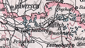 Detail from a map of Silesia.